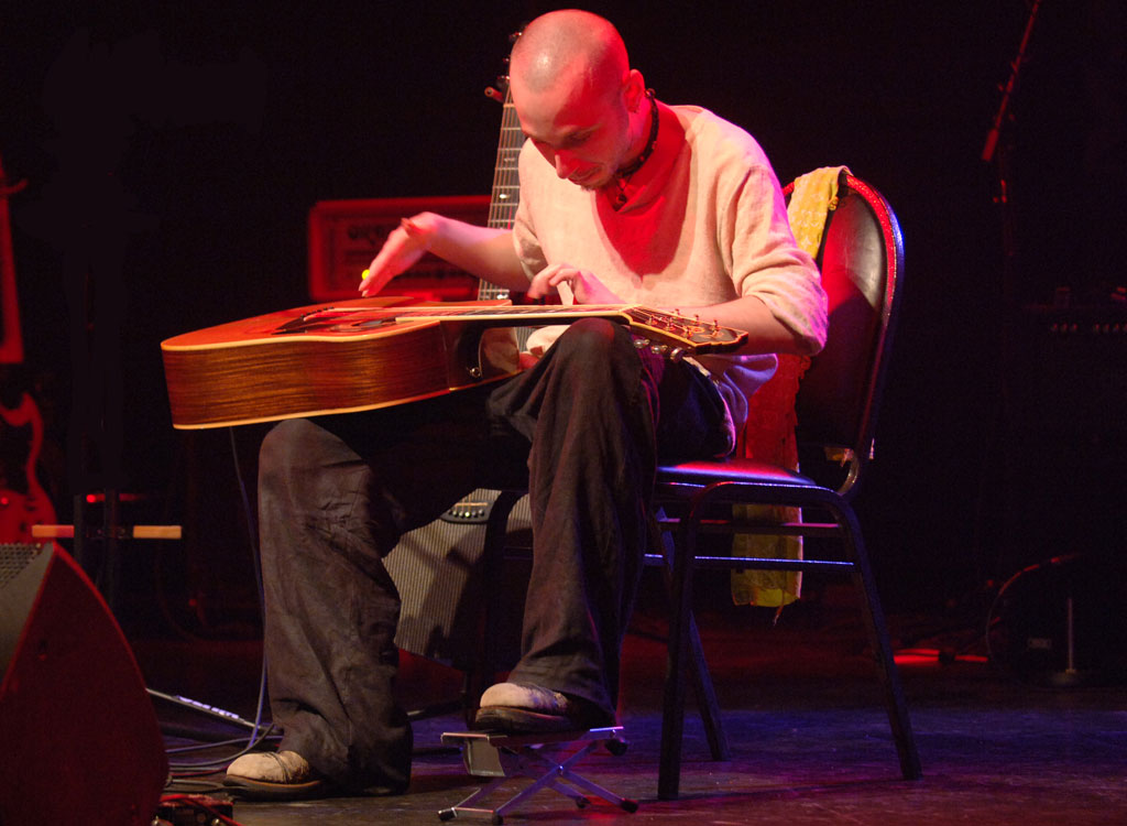 Erik Mongrain live at Club Soda of Montreal by Victor Diaz Lamich